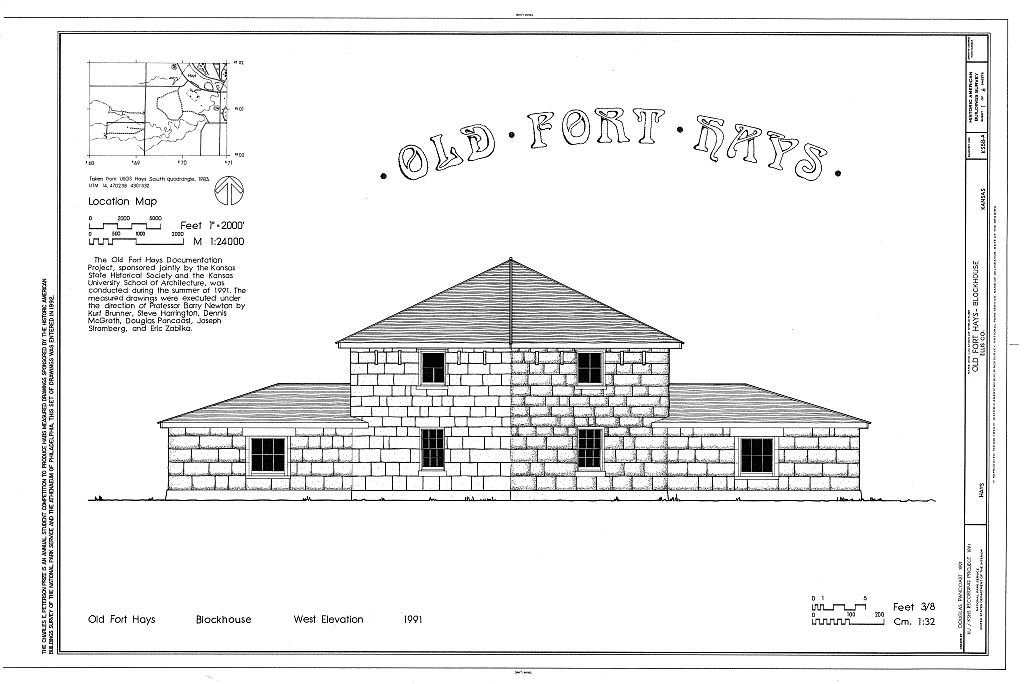 Drawing of the Old Fort Hays blockhouse, Hays, Kansas, USA